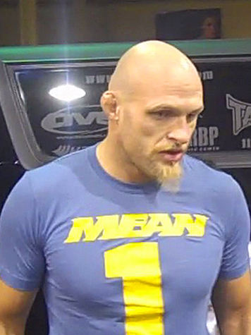 Keith "Dean of Mean" Jardine at UFC 100 Fan Expo - Mandalay Bay Casino, Las Vegas